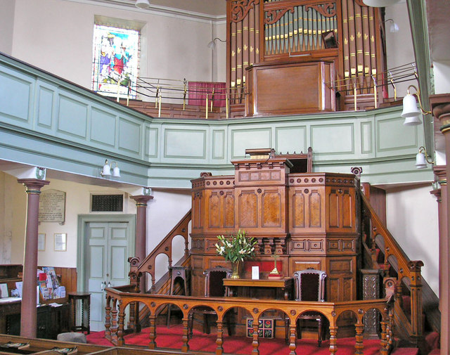 Heptonstall Methodist Church interior The beautiful interior of this well-proportioned octagonal building is kept in immaculate condition.